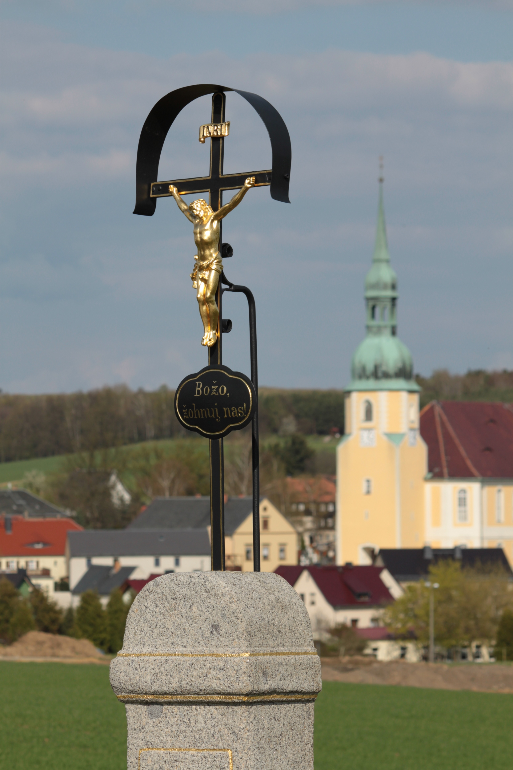 Wayside cross near Crostwitz/Chrósćicy, Bautzen district, Saxony. Inscription: „Božo, žohnuj nas!“ («God, may you bless us.»)